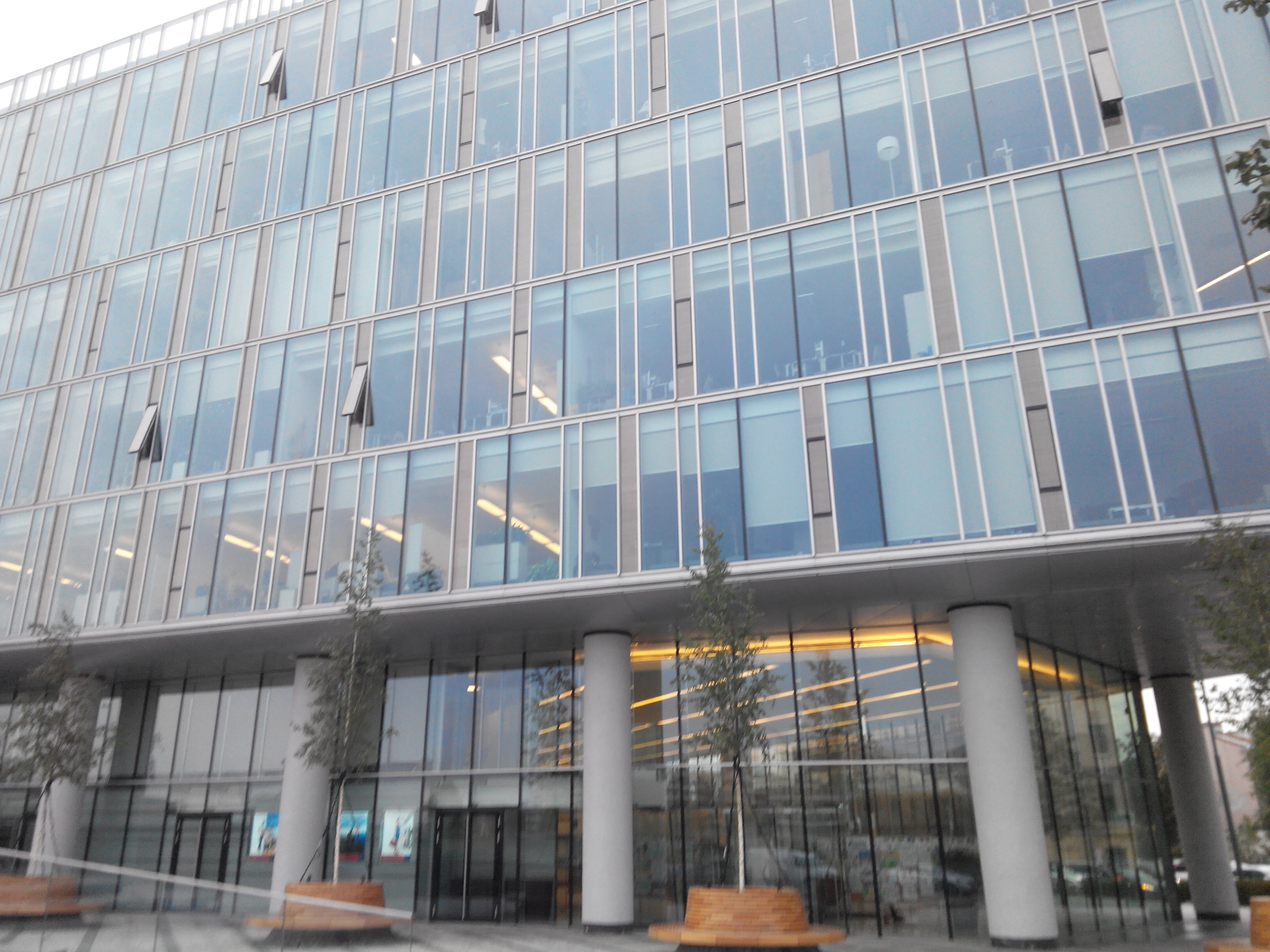 Admiral Lazarev Embankment